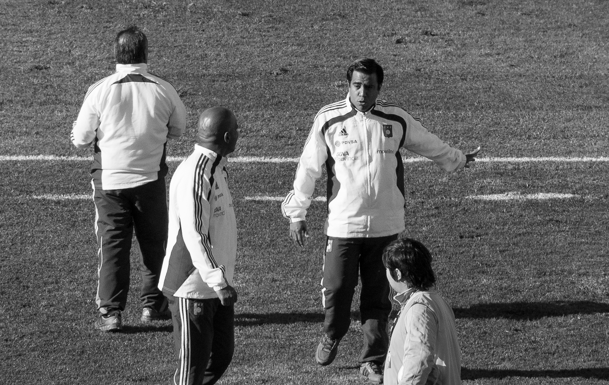 Cuerpo técnico de Venezuela